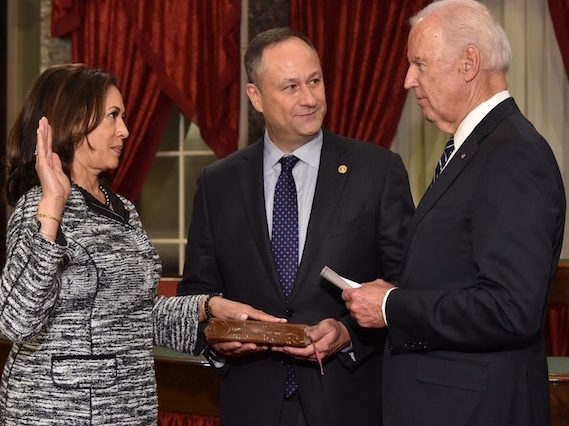 Kamala Harris takes oath of office as United States Senator by Vice President Joe Biden in January 3, 2017.